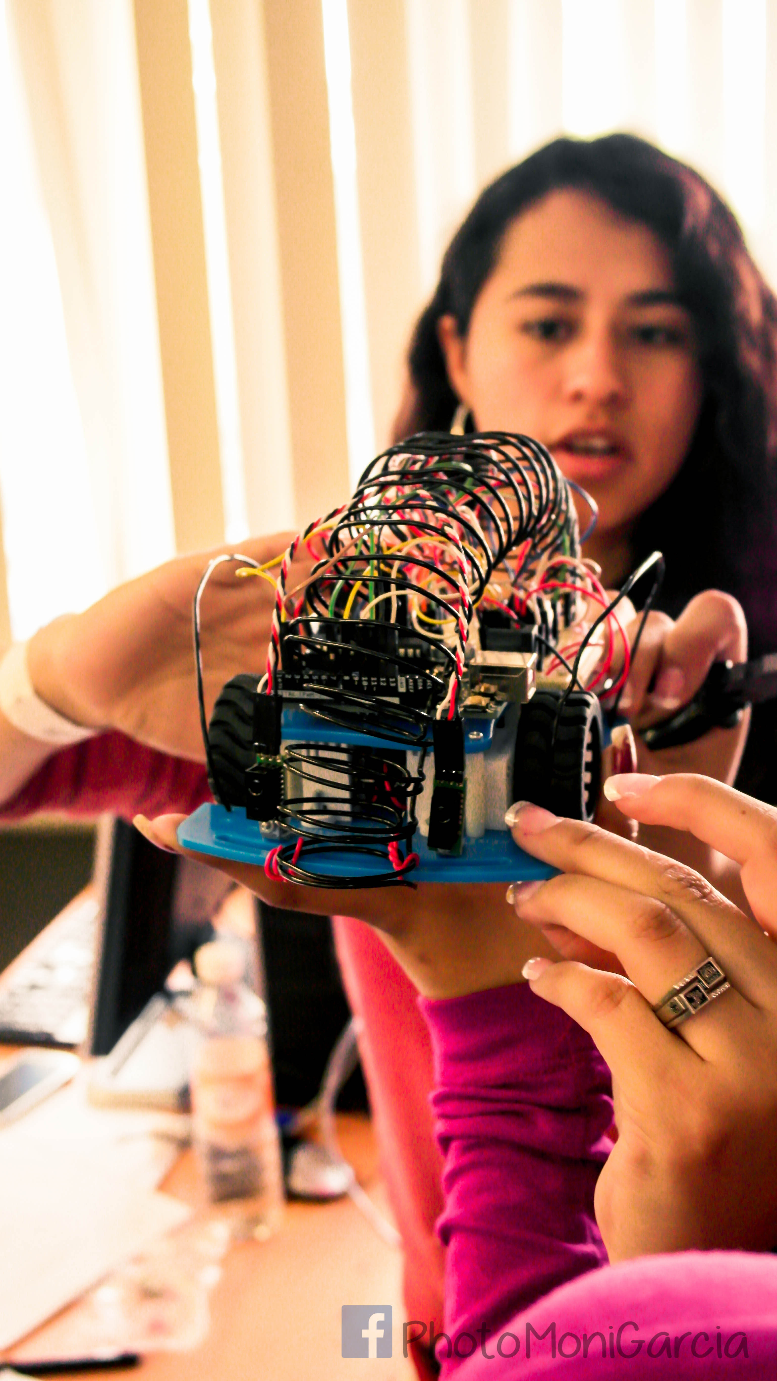 A computer engineering at UNAM building a mobile robot.